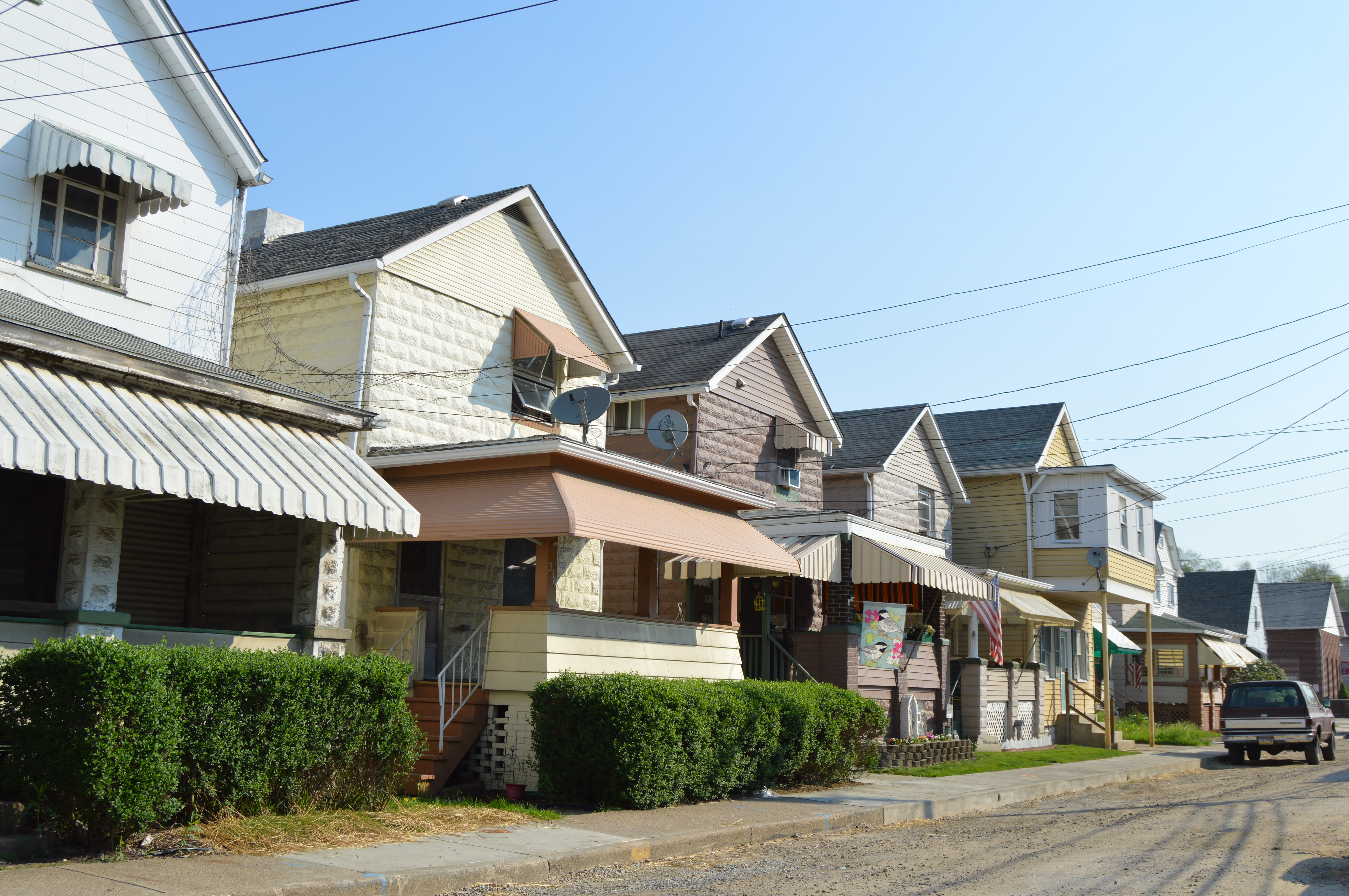 Houses on the northwestern side of McKinley Avenue northeast of the Chambers Street intersection in East Vandergrift, Pennsylvania, United States.